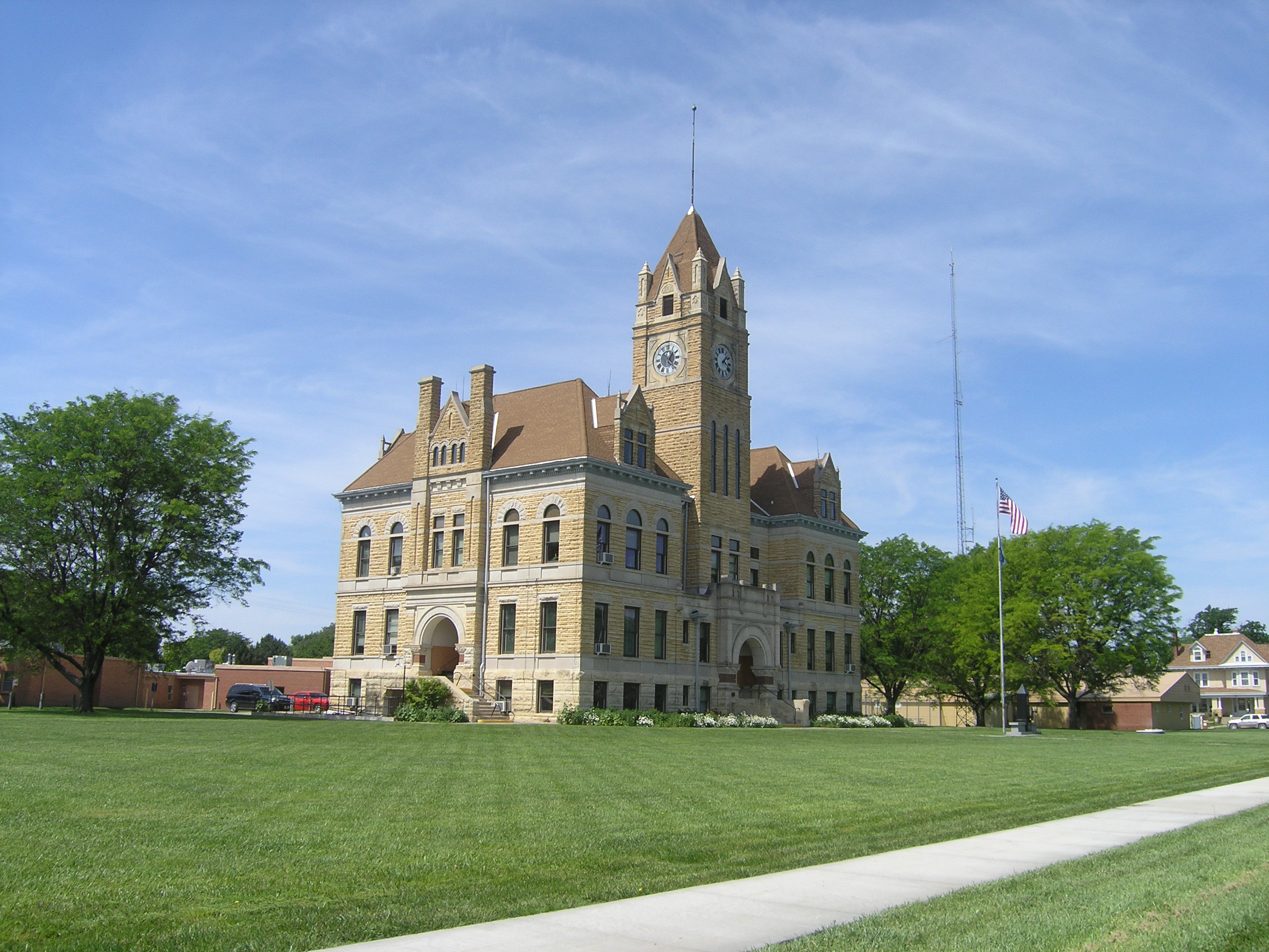 The Osborne County Courthouse is a finalist for the 8 Wonders of Kansas Architecture because it is a shining example of the Richardsonian Romanesque style courthouses of Kansas, renowned for the originality of its decorative interior. The courthouse was designed by the renowned architect firm of Holland & Squires of Topeka. Senior partner James C. Holland served as Kansas State Architect in 1895-1898. The building was completed in 1908 for just over $54,000 and is listed on the National Register of Historic Places.